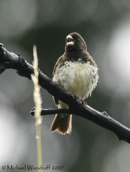 Yellow-bellied Seedeater (Sporophila nigricollis), south-west of Quito, Ecuador 3/24/2007